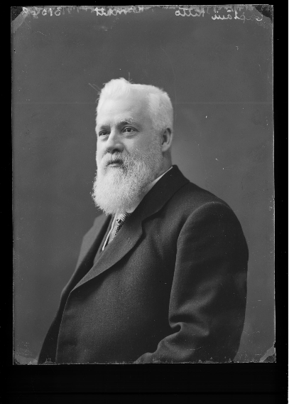 Portrait of Cpatain William Henry Kitto. Captain of the Foxdale Mines, Member of the House of Keys and a Justice of the Peace.